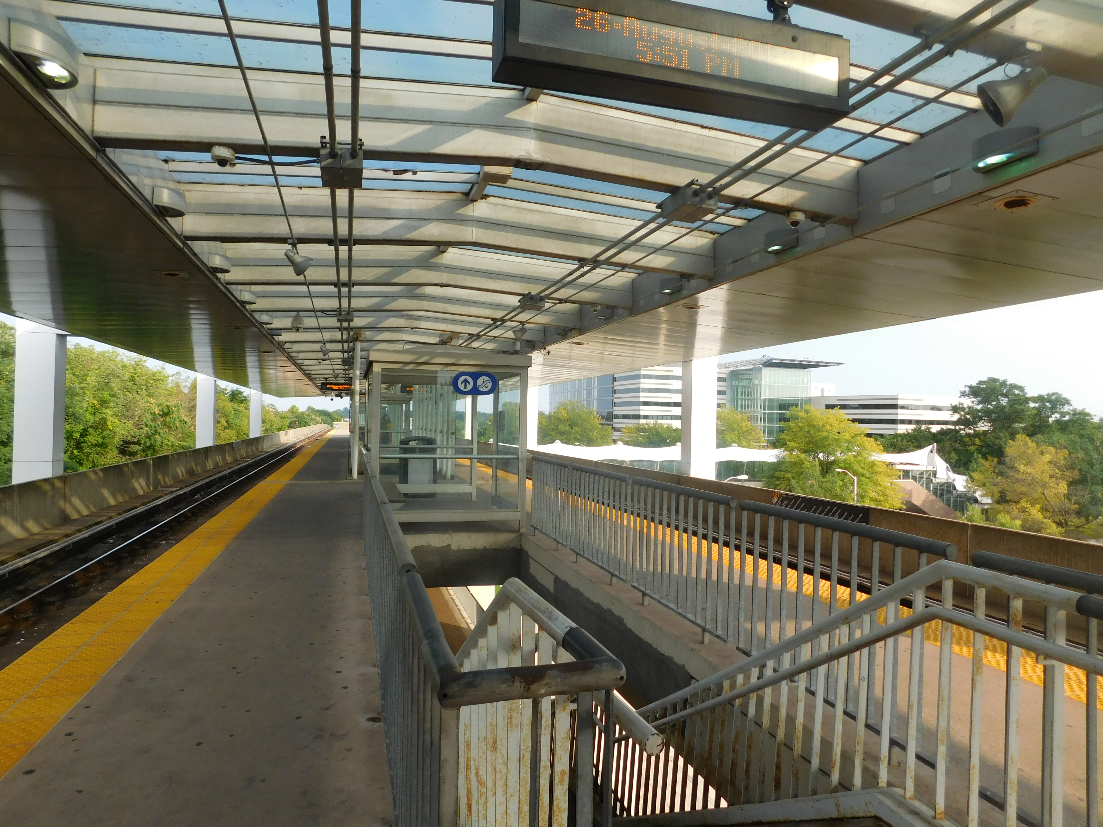 Reisterstown Plaza station in August 2018.